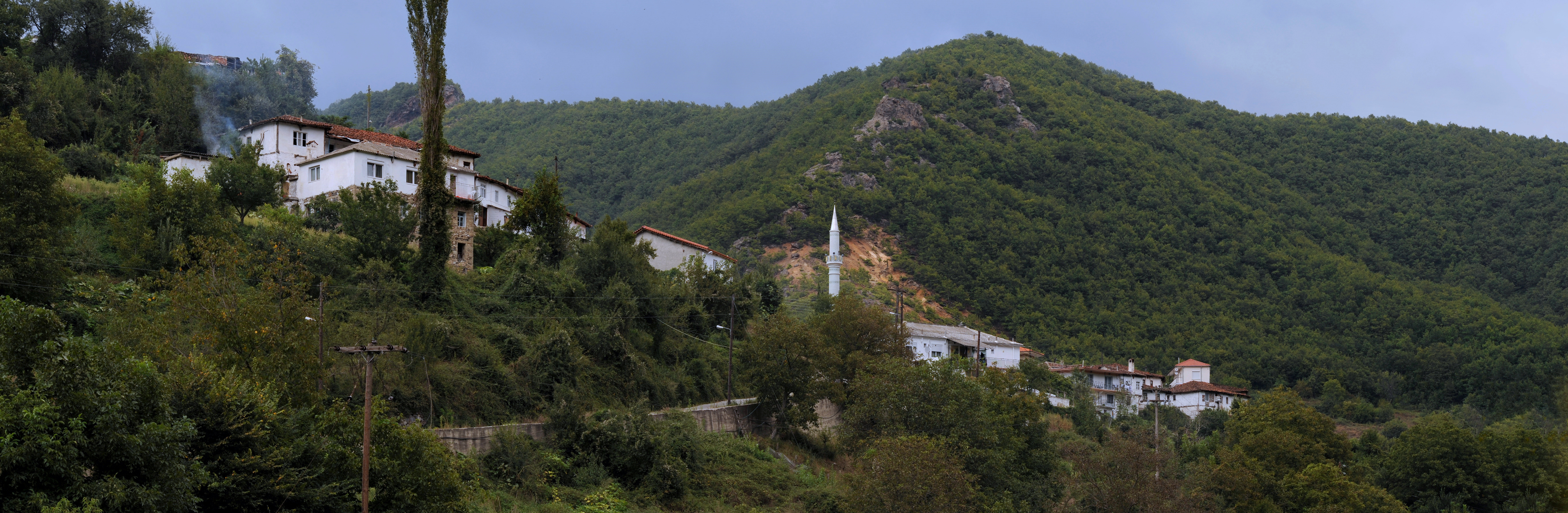 Panorama of Kato Thermes village, Xanthi Prefecture, Thrace, Greece.